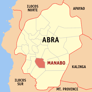 Map of Abra showing the location of Manabo